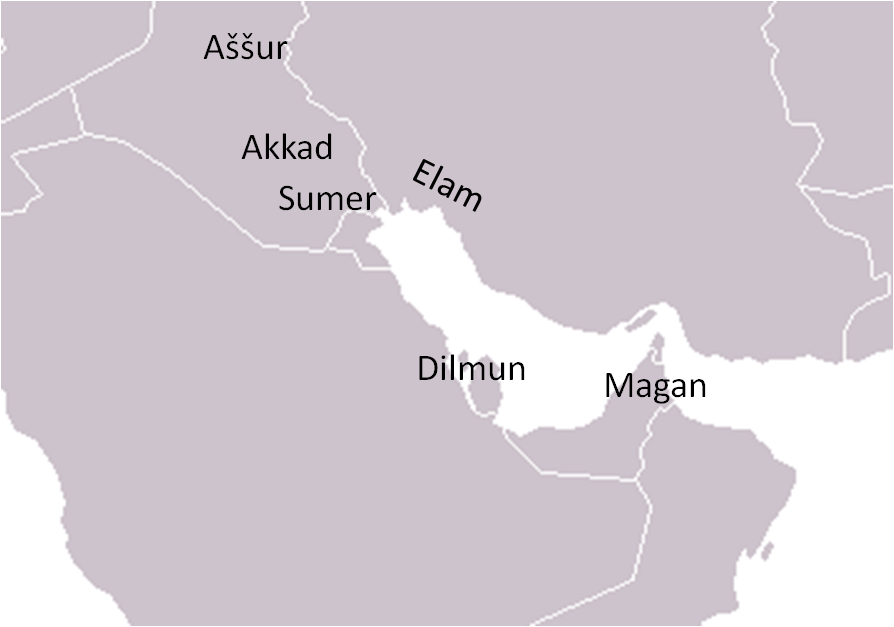 An amended version of File:BlankMap-PersianGulf.png showing the approximate location of countries around 2000BC